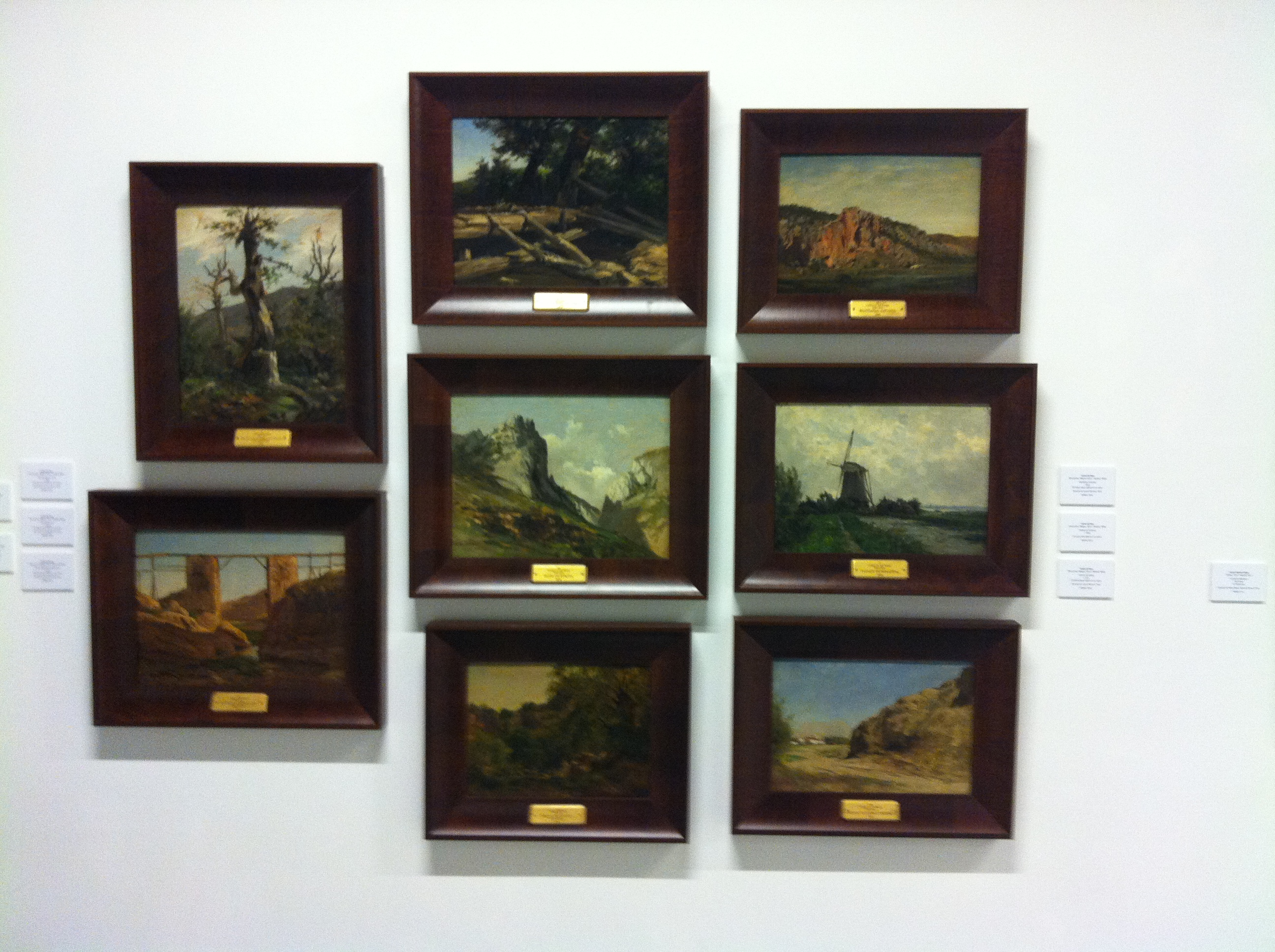 Interior views of Museu d'Art Jaume Morera, in Lleida